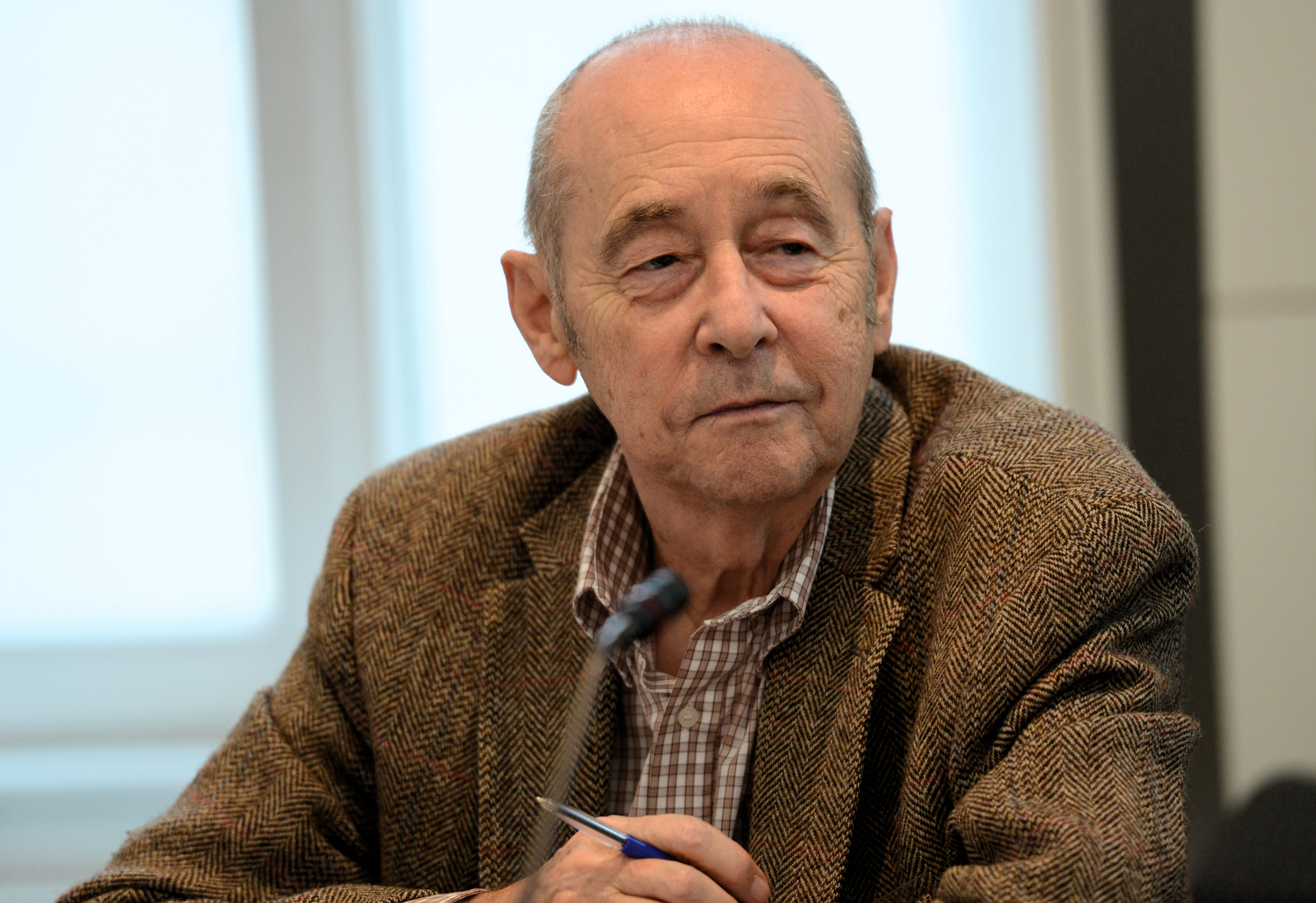 Institut d'études européennes et internationales du Luxembourg, Conference on The Politics of Virtue: the crisis of liberalism and the post-liberal future. A book manuscript by John Milbank and Adrian Pabst, Luxembourg, 17 and 18 October 2014. Jacques Steiwer, Doctor of Philosophy; author of the book: Une morale sans dieu, Luxembourg.